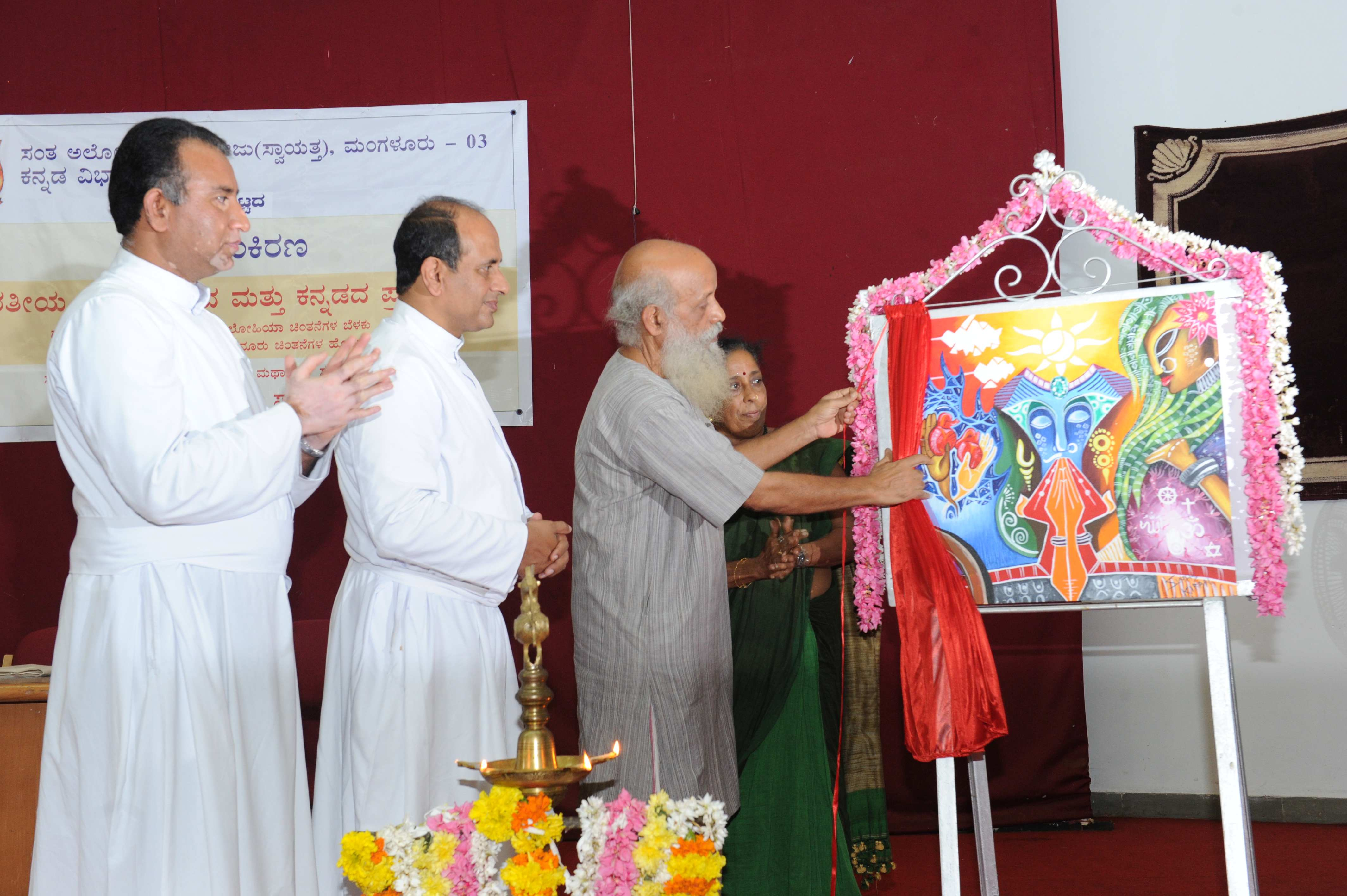 National seminor